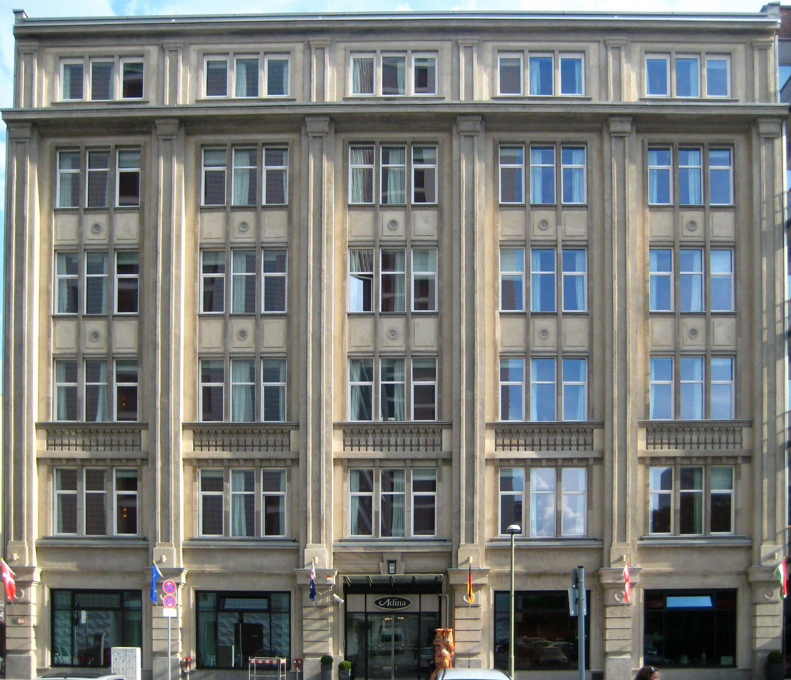 The Adina Apartment Hotel Berlin at Krausenstraße No. 35-36 in Berlin-Mitte. The building was constructed after 1900, the architect is unknown. Originally, the building stood at Dönhoffplatz, but that small city park vanished when, starting in 1969, high-rise apartment buildings were erected in this neighborhood. The only pre-WWII buildings which were left standing are this building and the nearby Krausenhof. The building was altered for the first time after 1937. It was probably damaged in WWII, because the facade was redesigned in the 1950s, receiving a classicist outlook; at the same time, the attic was altered into a full story. Preserved original components of the building include the facades of the inner yard with large windows and a white-green facing as well as the main stairwells. The building received a modern annex along Jerusalemer Straße (structured similar to the original building) when it was altered into an apartment hotel in 2006/2007. The building has been designated as a historic landmark.